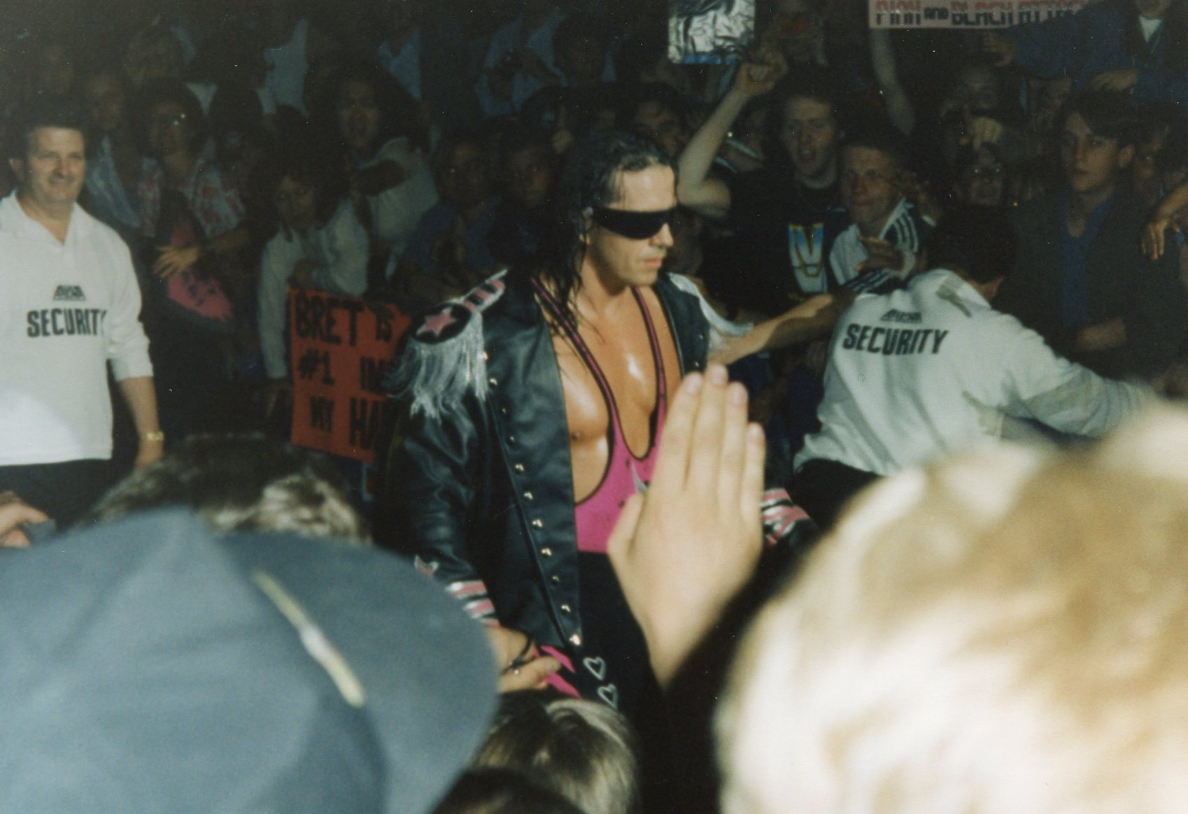 Professional wrestler Bret Hart making his entrance to a WWF ring in Birmingham, England